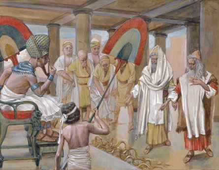 The Rod of Aaron Devours the Other Rods, c. 1896-1902, by James Jacques Joseph Tissot (French, 1836-1902), gouache on board, 8 3/4 x 11 9/16 in. (22.3 x 29.4 cm), at the Jewish Museum, New York